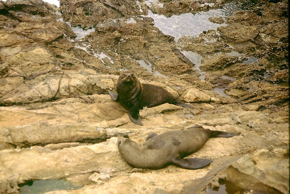 Two New Zealand Fur Seals, Arctocephalus forsteri